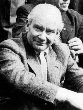 Photograph of the Danish landscape architect Carl Theodor Sørensen (1893–1979).